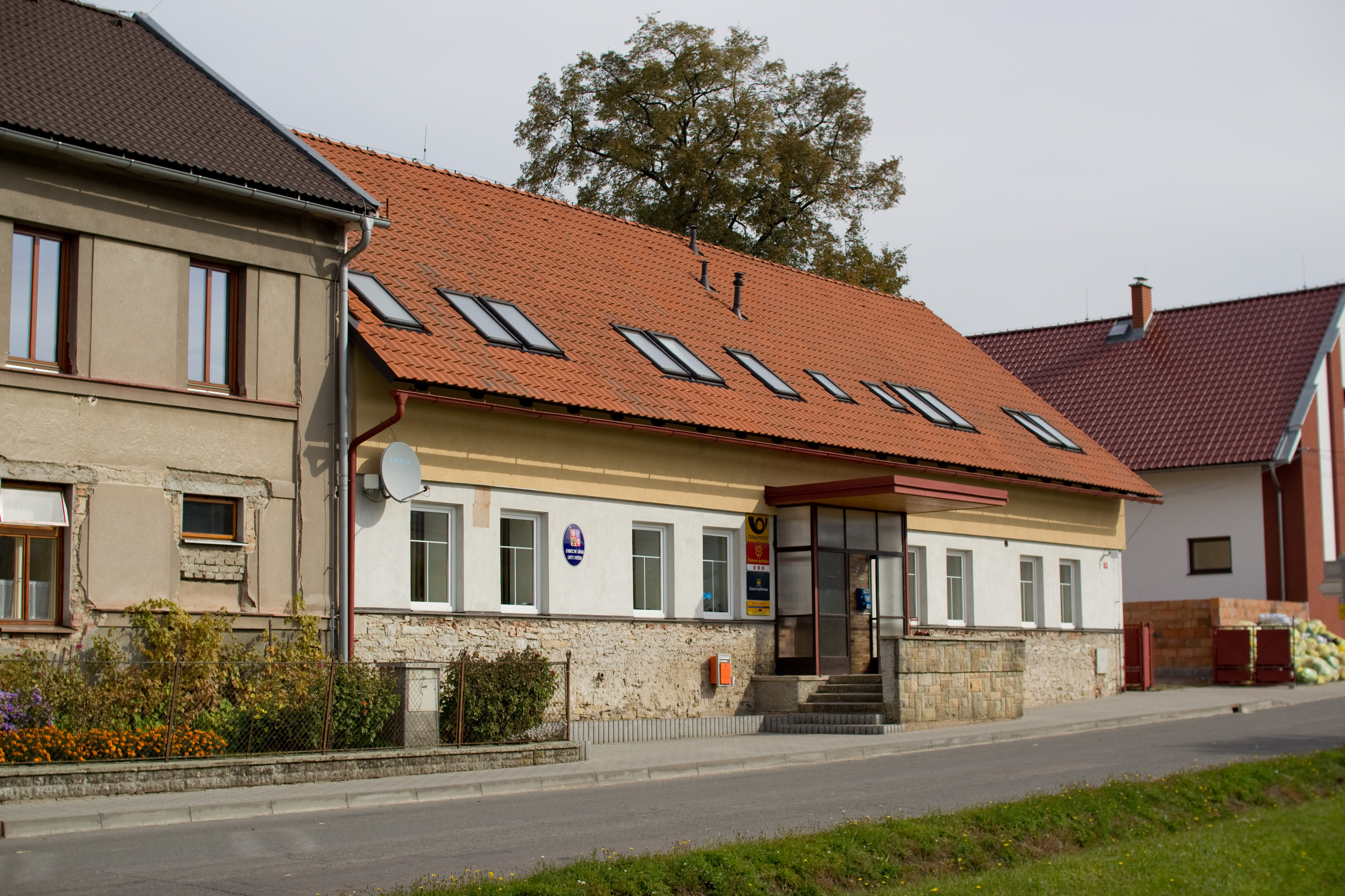 Munticipal office, Lhoty u Potštejna, Rychnov nad Kněžnou District, Hradec Králové Region